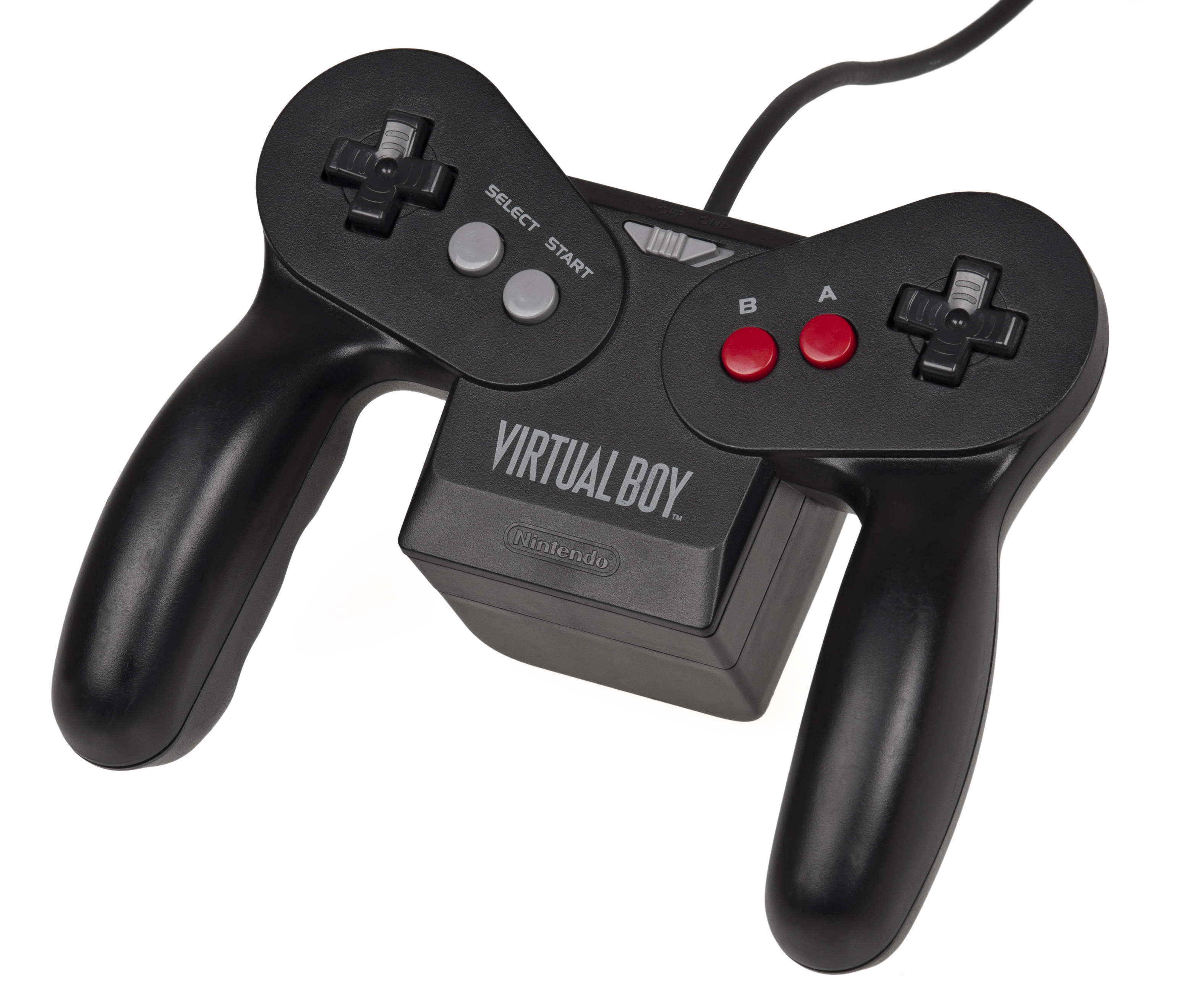 A controller for the Virtual Boy game console, made by Nintendo. The controller holds AA batteries that power the unit.